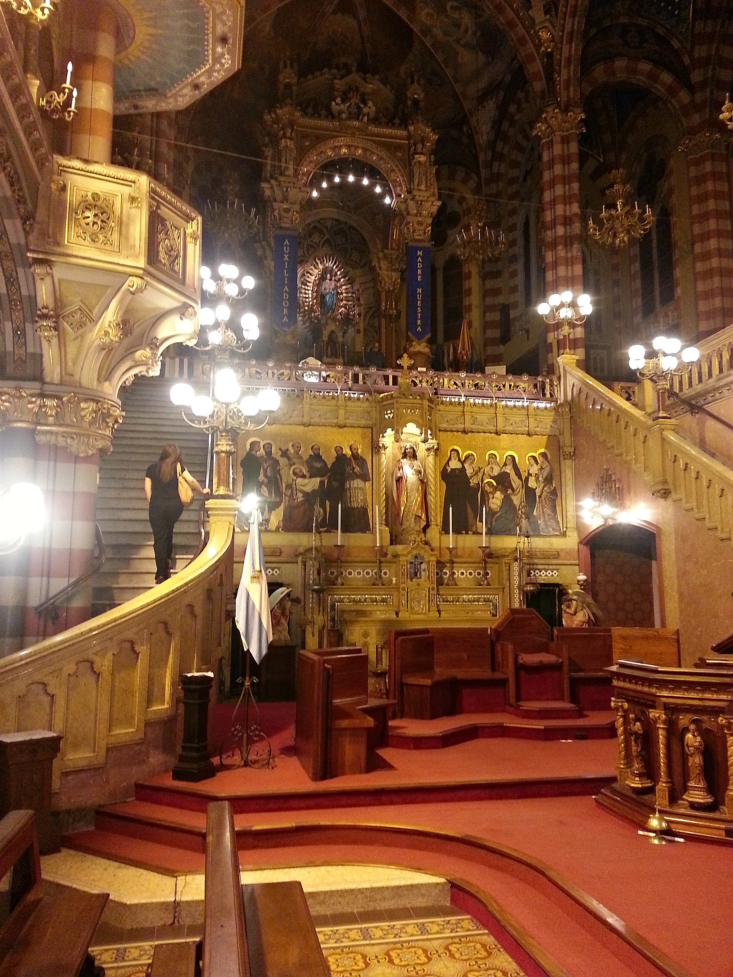 The chapel of the Virgin is located in the Upper Temple, which is accessed from the Middle Temple by two marble stairways. Access to the chapel of the Virgin symbolizes to the believers a true internal pilgrimage.